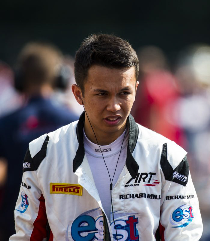 Alexander Albon during the Formula E testing in Marrakech, December 2017